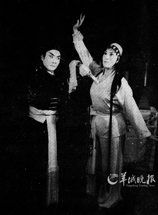 Wu Song killing Pan Jinlian - scene from Ouyang Yuqian's drama Pan Jinlian. 1961 performance by Beijing People's Arts Troupe. Tian Chong (田沖) as Wu Song, Di Xin (狄辛) as Pan Jinlian.